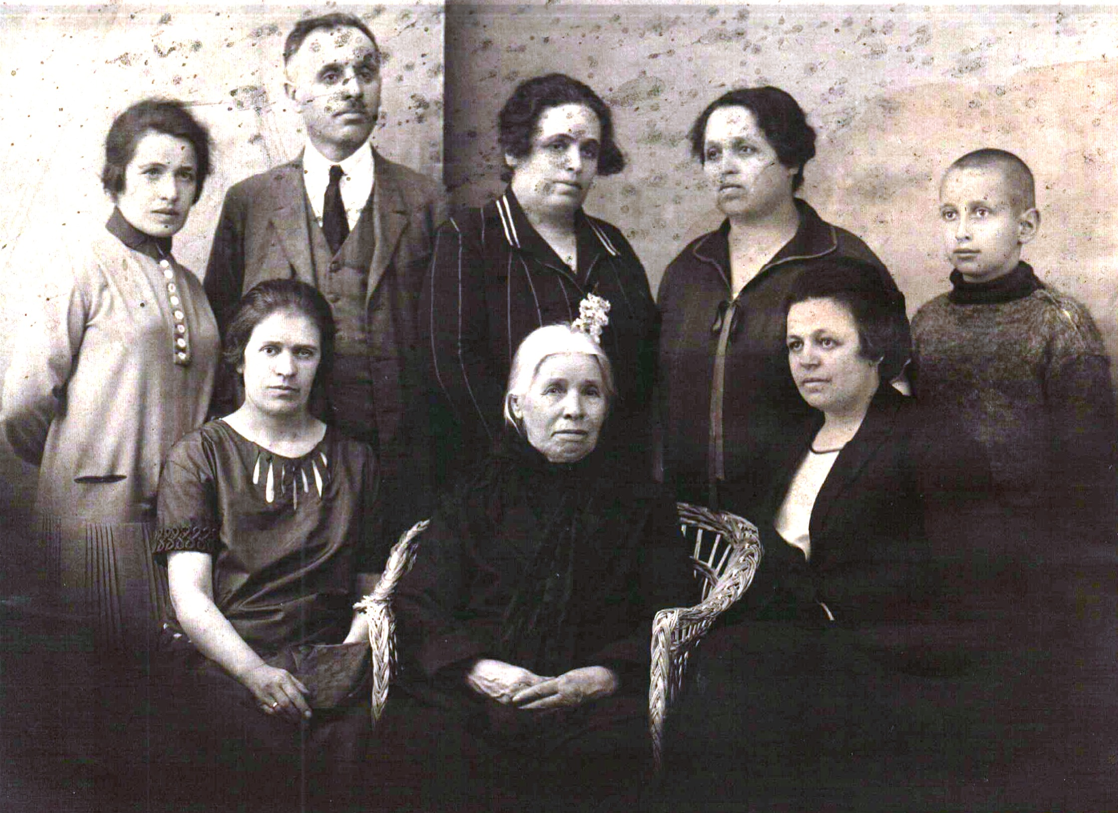 Bulgarian actress Zlatina Nedeva (1878-1941)